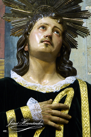 San Juan Evangelista (El Enamorado). Fernando Estévez de Salas (1788-1854). Parroquia de San Juan Bautista. La Orotava